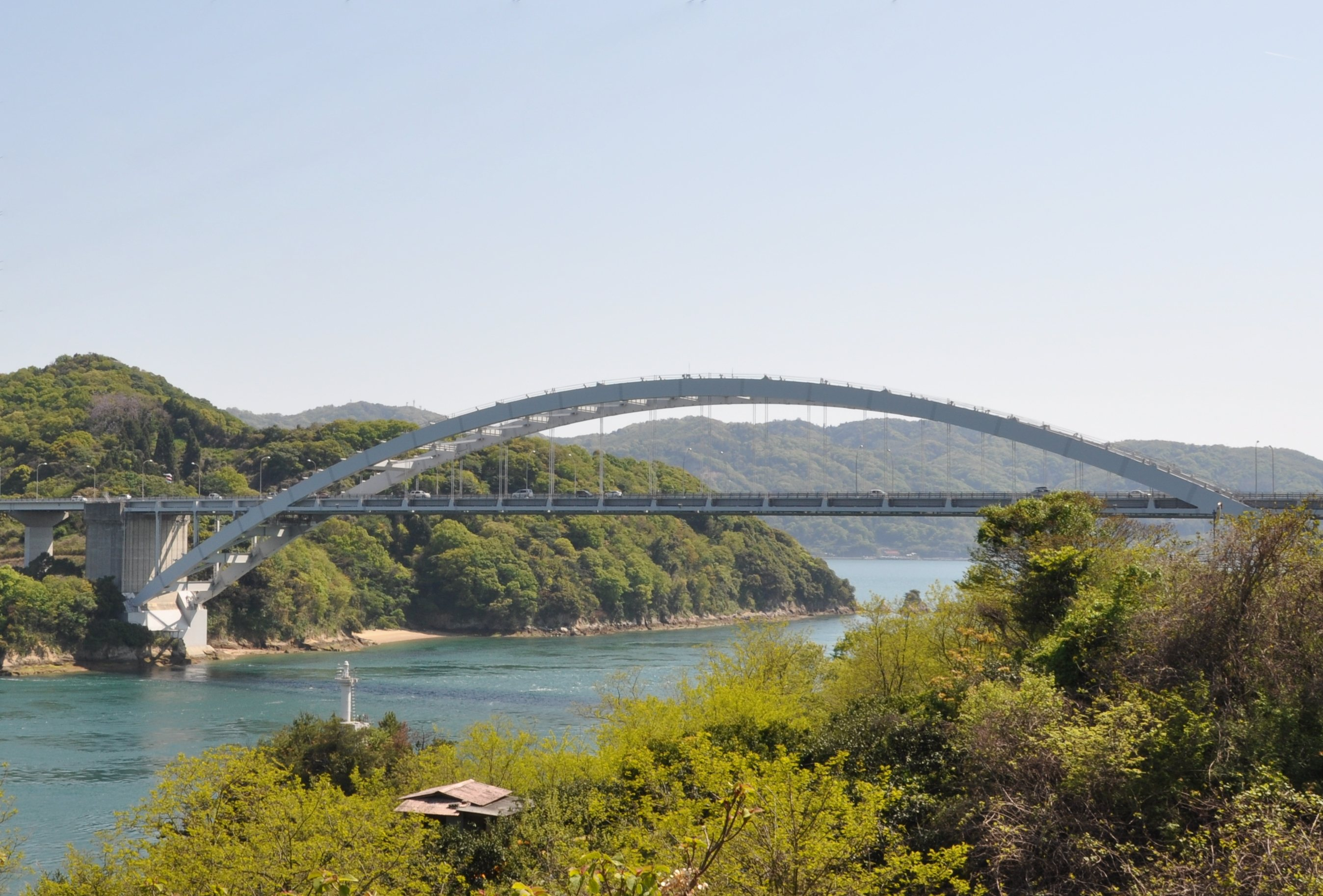 Omishima Bridge in Ehime prefecture, Japan